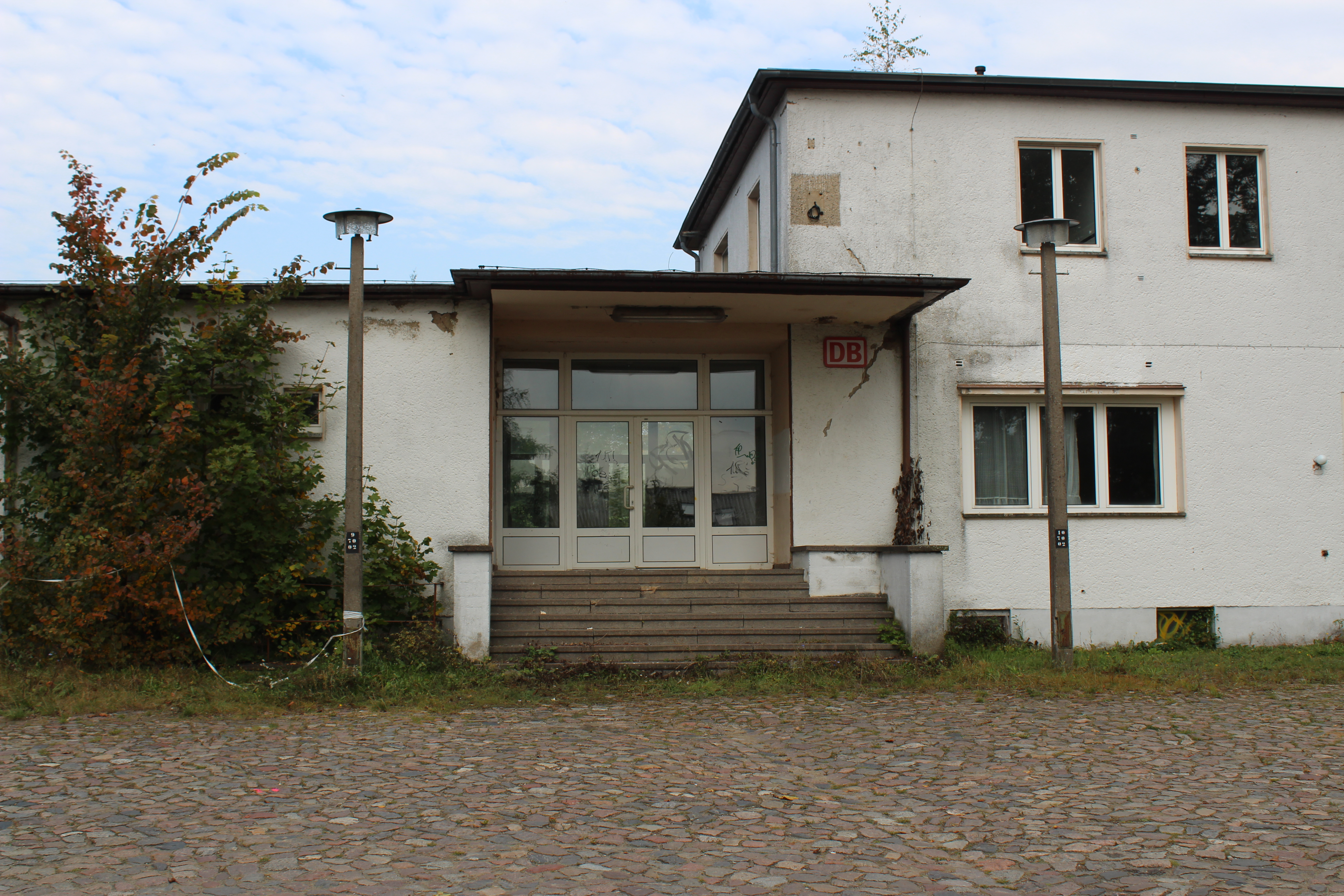 train station Trebnitz (Mark)